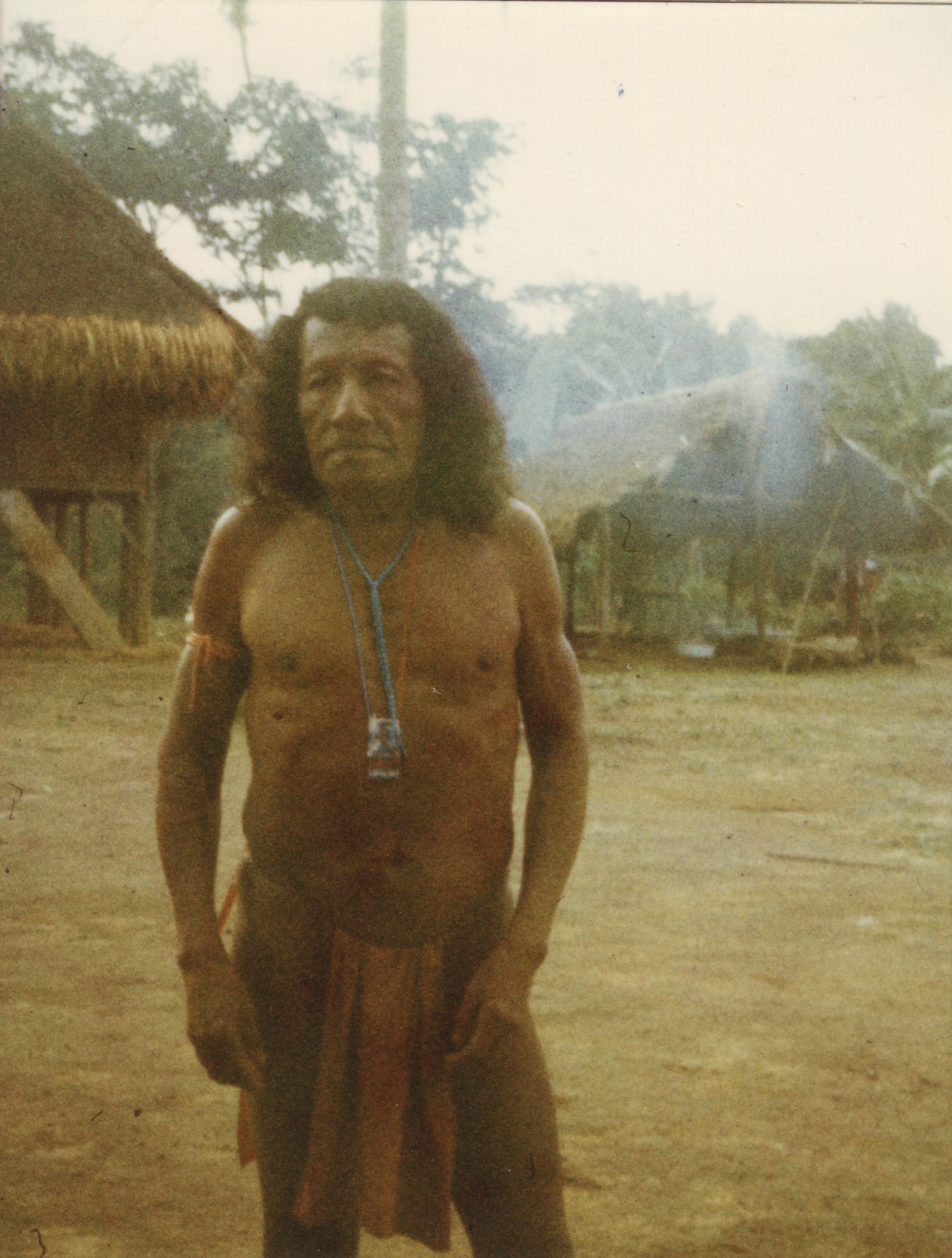 Photo taken in 1979.